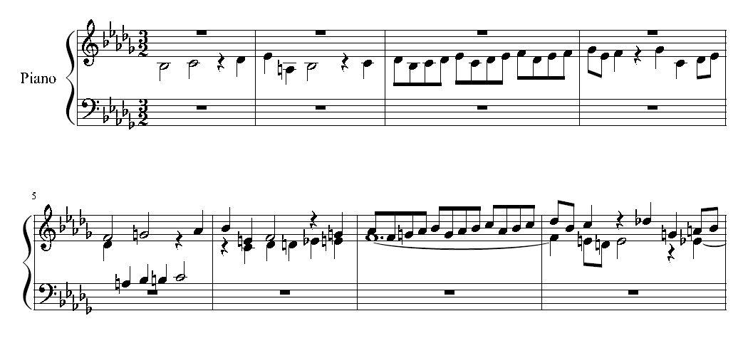 Beginning of Fugue, BWV 891